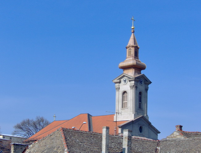 Evangelical Church in Novi Sad